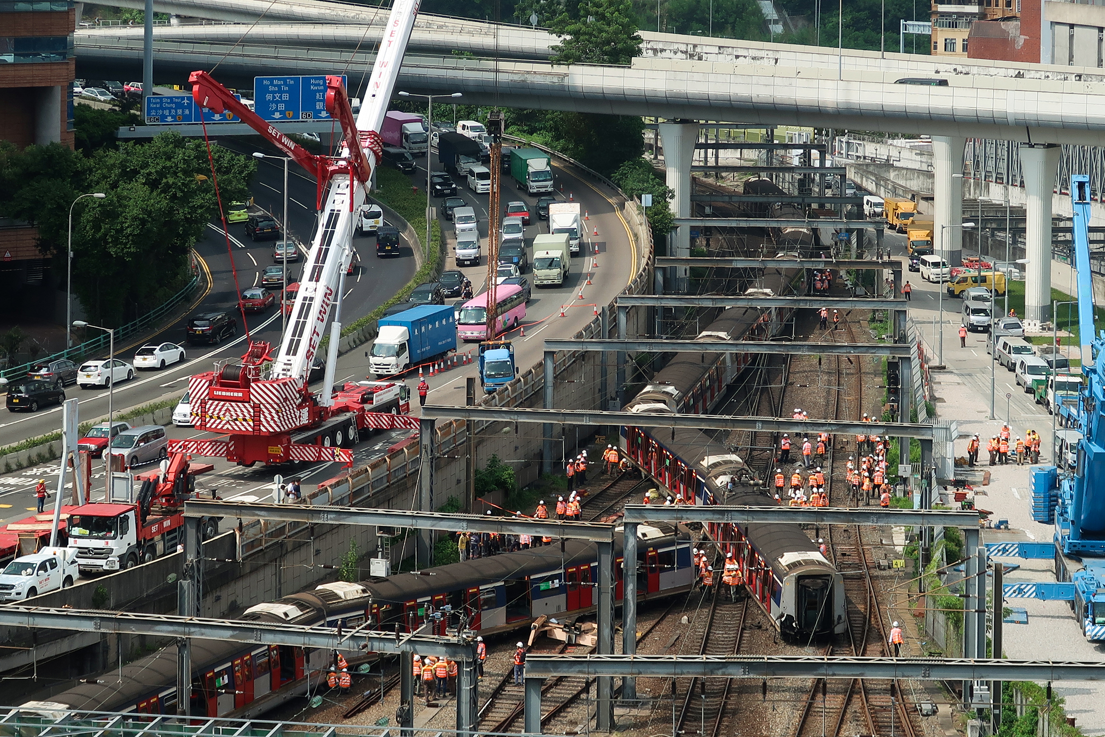 A train has derailed on the East Rail line, near Hung Hom Station on 17/9/2019